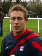 England Rugby Union Player Jonny Wilkinson